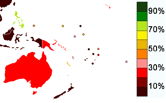 Map of Catholic population percentages in Oceania